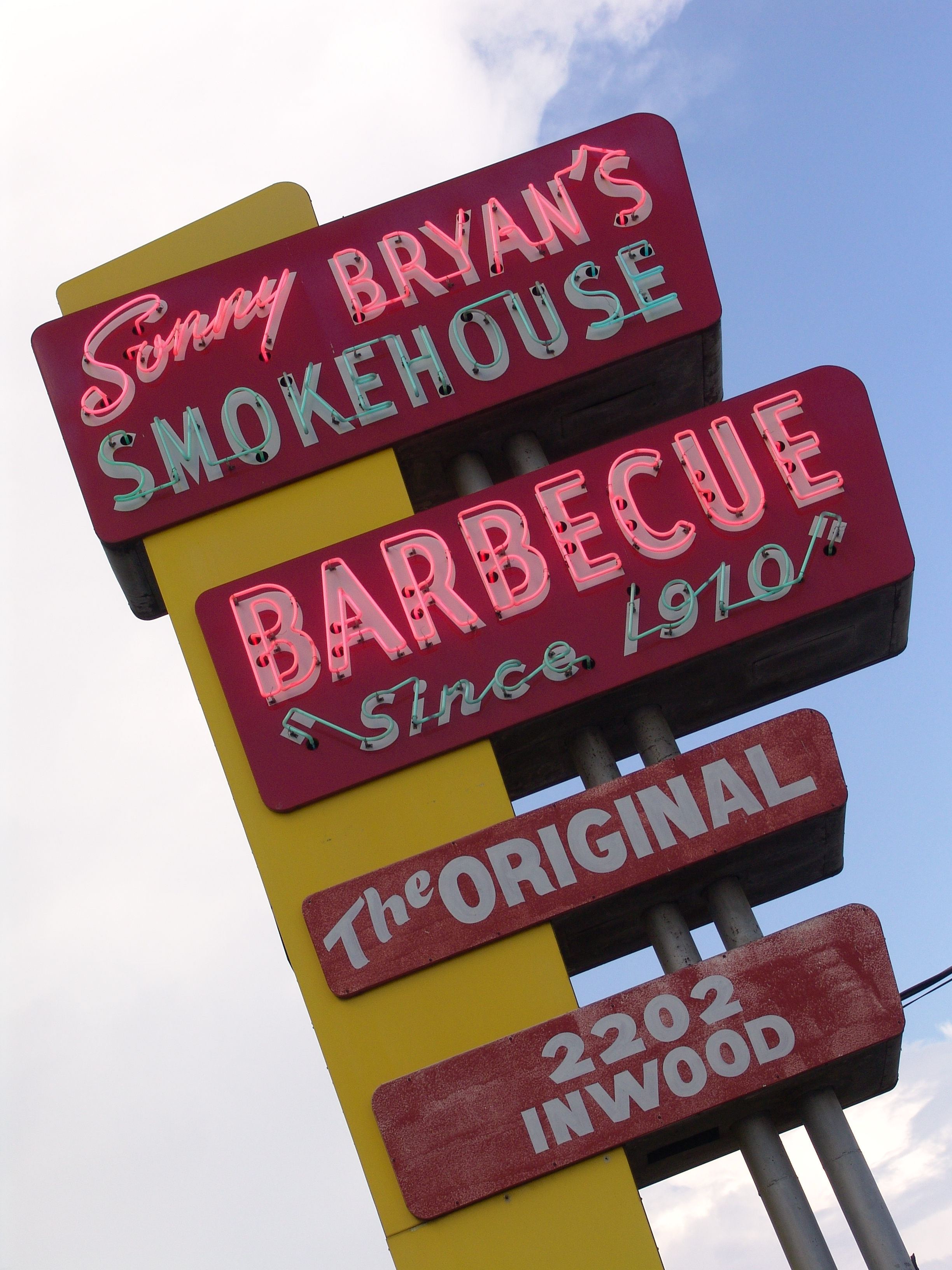 Sonny Bryan's Neon Sign